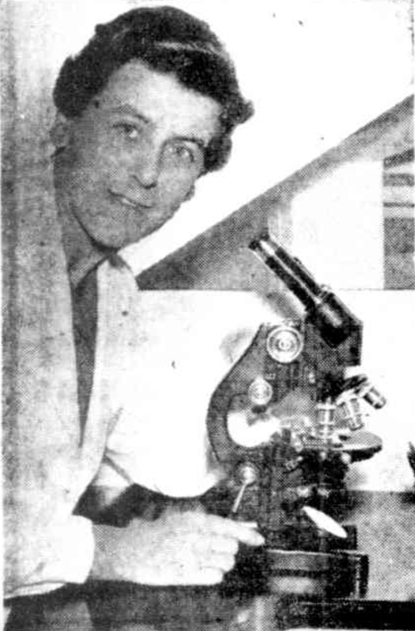 Bacteriologist Nancy Atkinson (Mrs. I. M. Cook) is busy on research and preparing for the first term at the Varsity, which begins on March 10.